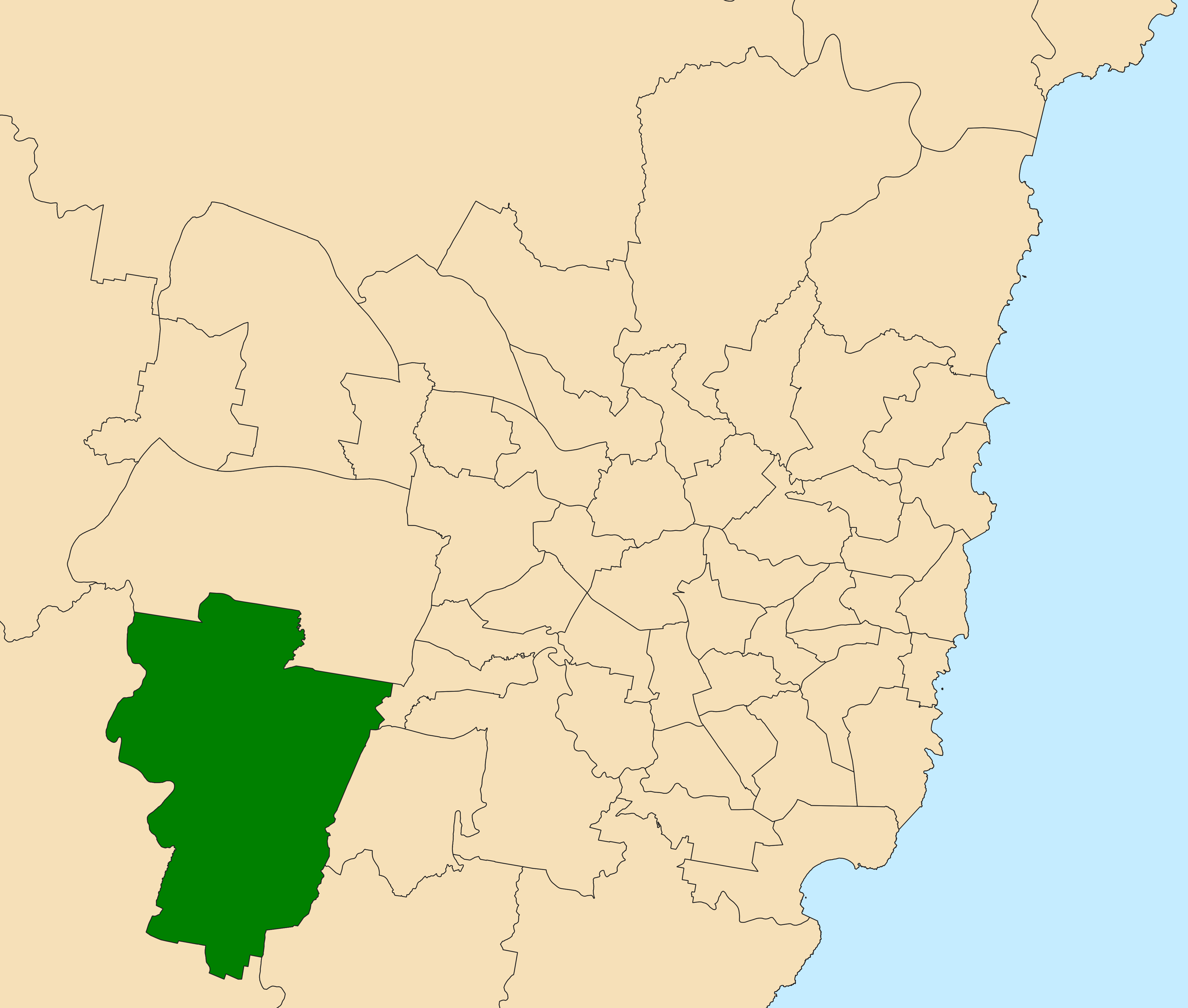 Location of the state electoral district of Camden (dark green) in the metropolitan Sydney area as of the 2019 New South Wales state election. Incorporates or developed using Administrative Boundaries ©PSMA Australia Limited licensed by the Commonwealth of Australia under Creative Commons Attribution 4.0 International licence (CC BY 4.0).